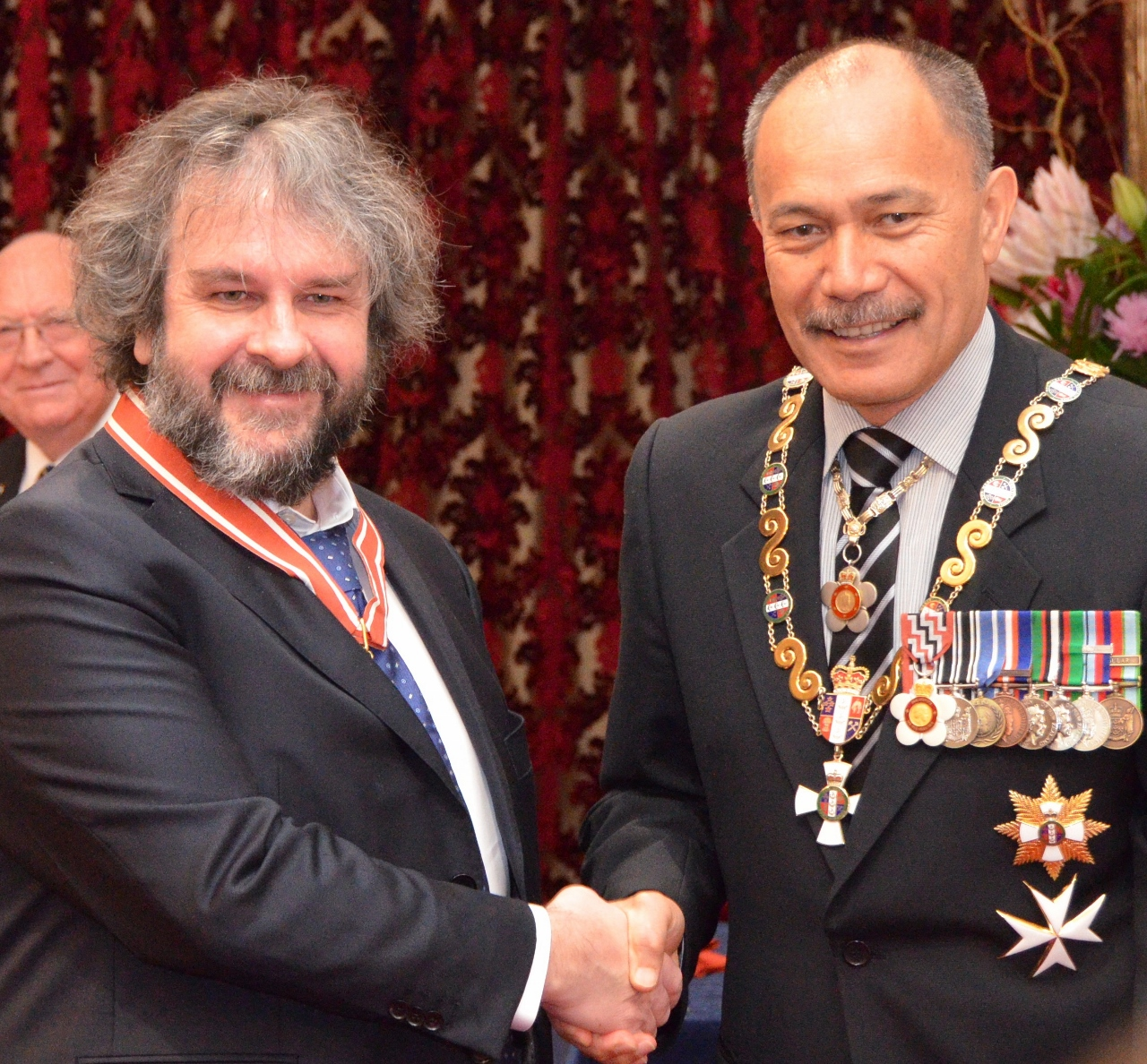 Sir Peter Jackson (left), after his investiture as an additional Member of the Order of New Zealand, by the governor-general, Sir Jerry Mateparae, at Government House, Wellington, on 17 September 2013.